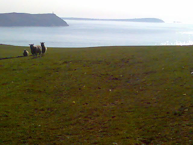 Stepper Point with Trevose Head beyond